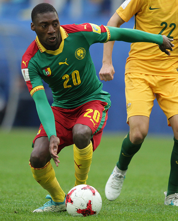 Cameroon vs Australia (1-1). FIFA Confederations Cup 2017